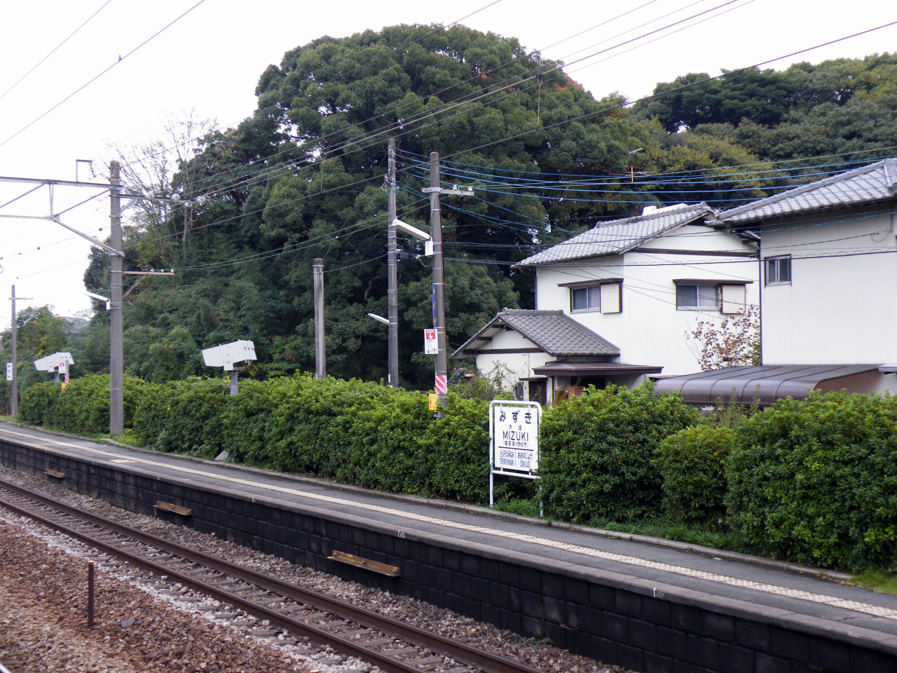 Mizuki Station platform. In the background is Special Historic Site Mizuki